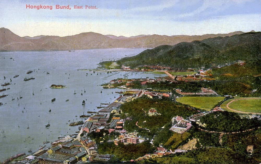 The postcard of Wan Chai and Causeway Bay drawn in 1900. The current location of the Victoria Park had not existed yet without the reclamation. The Kellett Island was at the ocean and many ships can be seen in the Victoria Harbour.